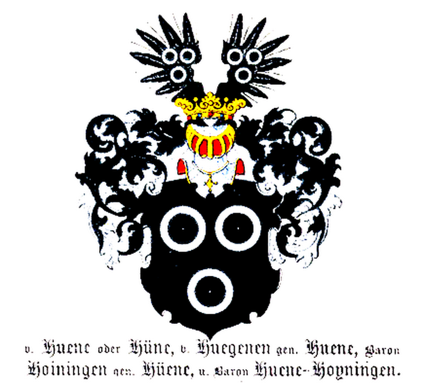 Coat of Arms of Hoyningen-Huene family